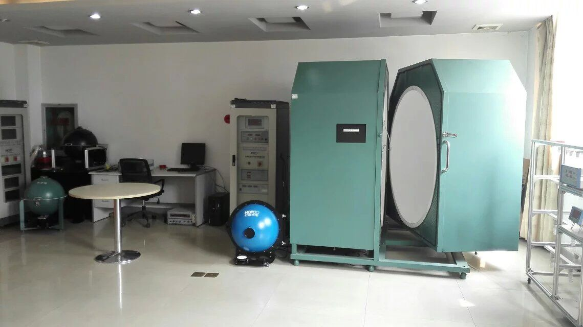 hopoo integrating sphere